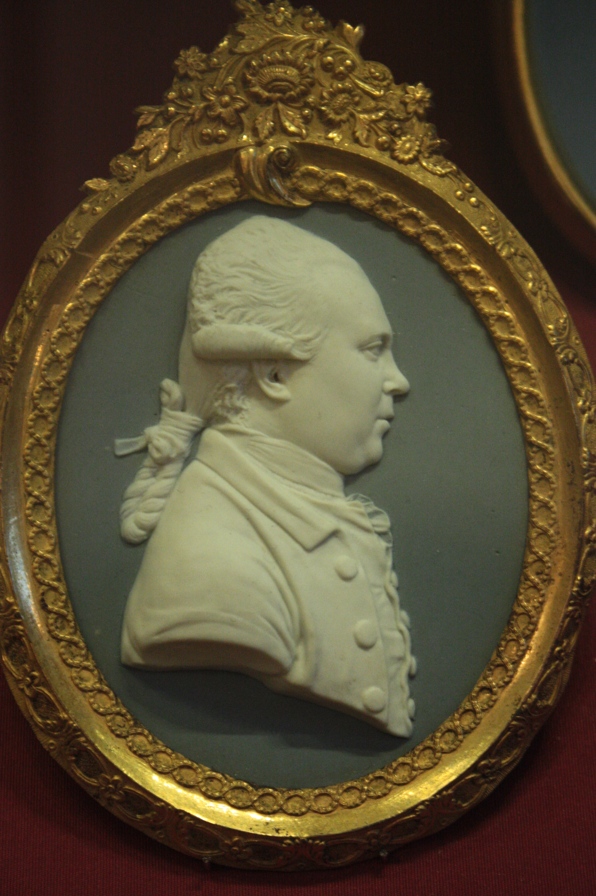 Daniel Solander. miniature by Josiah Wedgewood